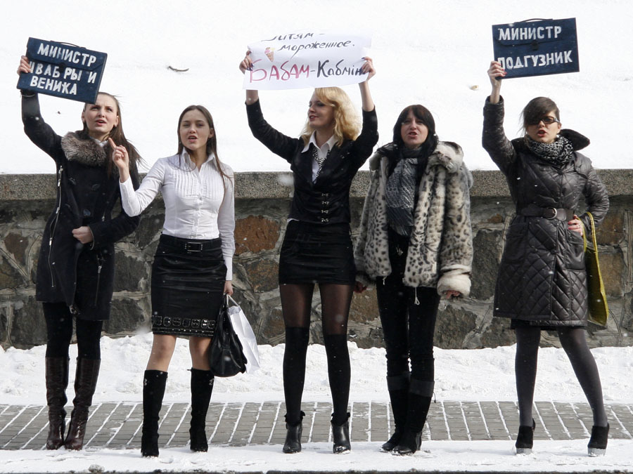 17 March 2010. FEMEN activists holding posters "Give us Women" during the protest rally nearby the Cabinet against absence of female ministers in the new Ukrainian Government. photo by Yaroslav Debelyi